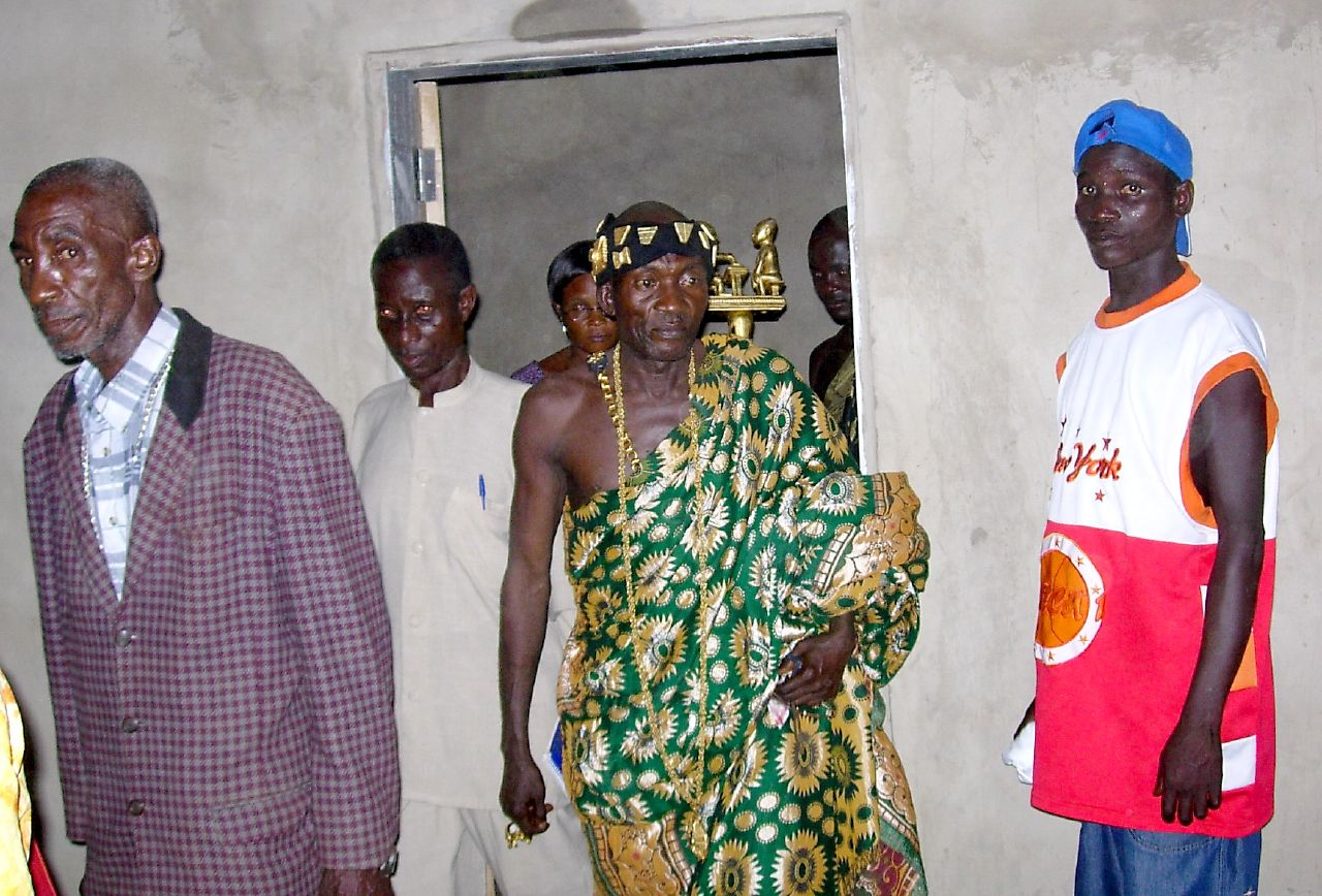 Chief of Awaso, Ghana, Nana Yaw Gyamu III. visits a completed Habitat for Humanity house during the celebration at the end of a Global Village mission in January 2005.